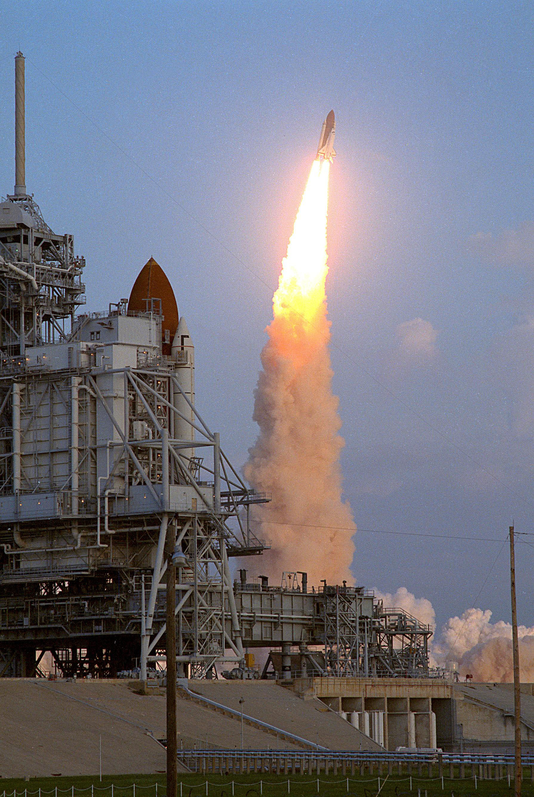 The Space Shuttle Discovery hurtles into space as sister ship Columbia looks on from Launch Pad 39A. Discovery lifted off from pad 39B at 7:47 a.m. EDT, Oct. 6. Columbia will be moved to the vacated pad 39B where it will undergo testing to pinpoint the source of a liquid hydrogen leak. Discovery is carrying a crew of five and the Ulysses solar explorer as it embarks on mission STS-41, a four-day flight.